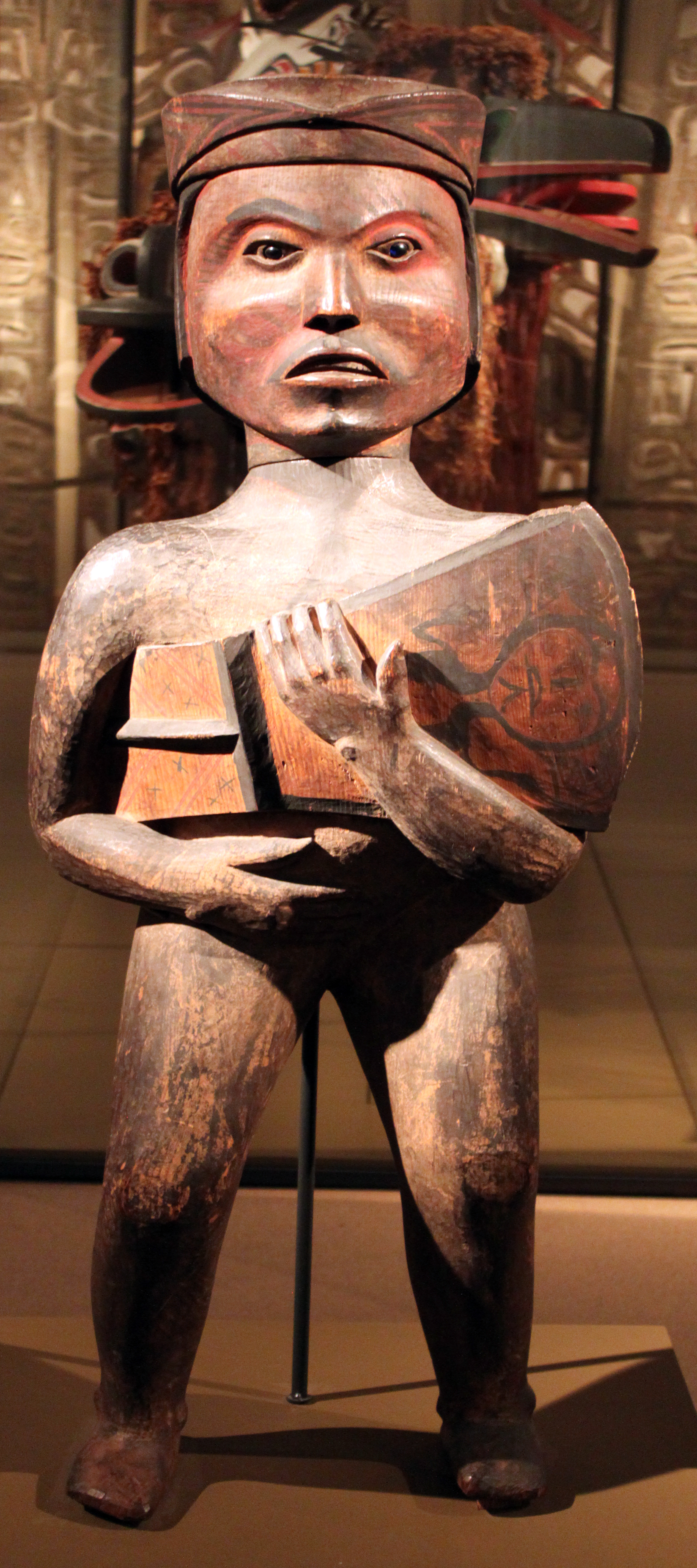 Figure of a famous Kwakiutl chief holding a ceremonial copper plate, the symbol of whealth, 1881